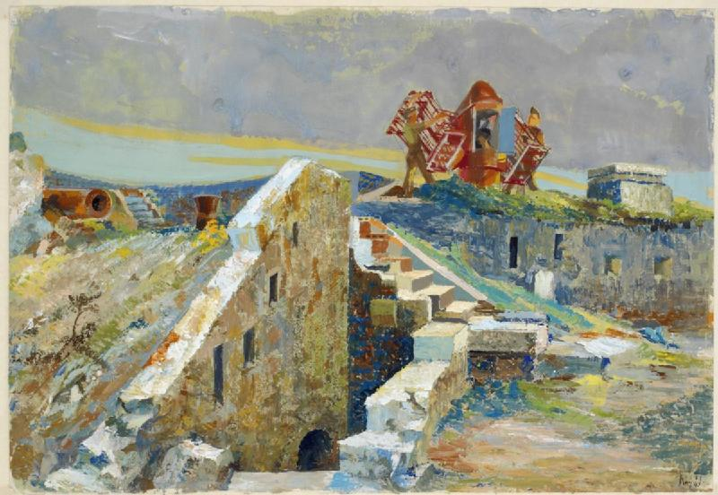 Fortified Islands in the Bristol Channel- 2" Naval Up Projector on an earlier fortification image: A Naval UP Projector standing on top of an old fortification. The gun is manned by two uniformed figures, one on either side. In the foreground there are two sets of steps: one leading up to the soldiers and the second leading down to a doorway in the hill.